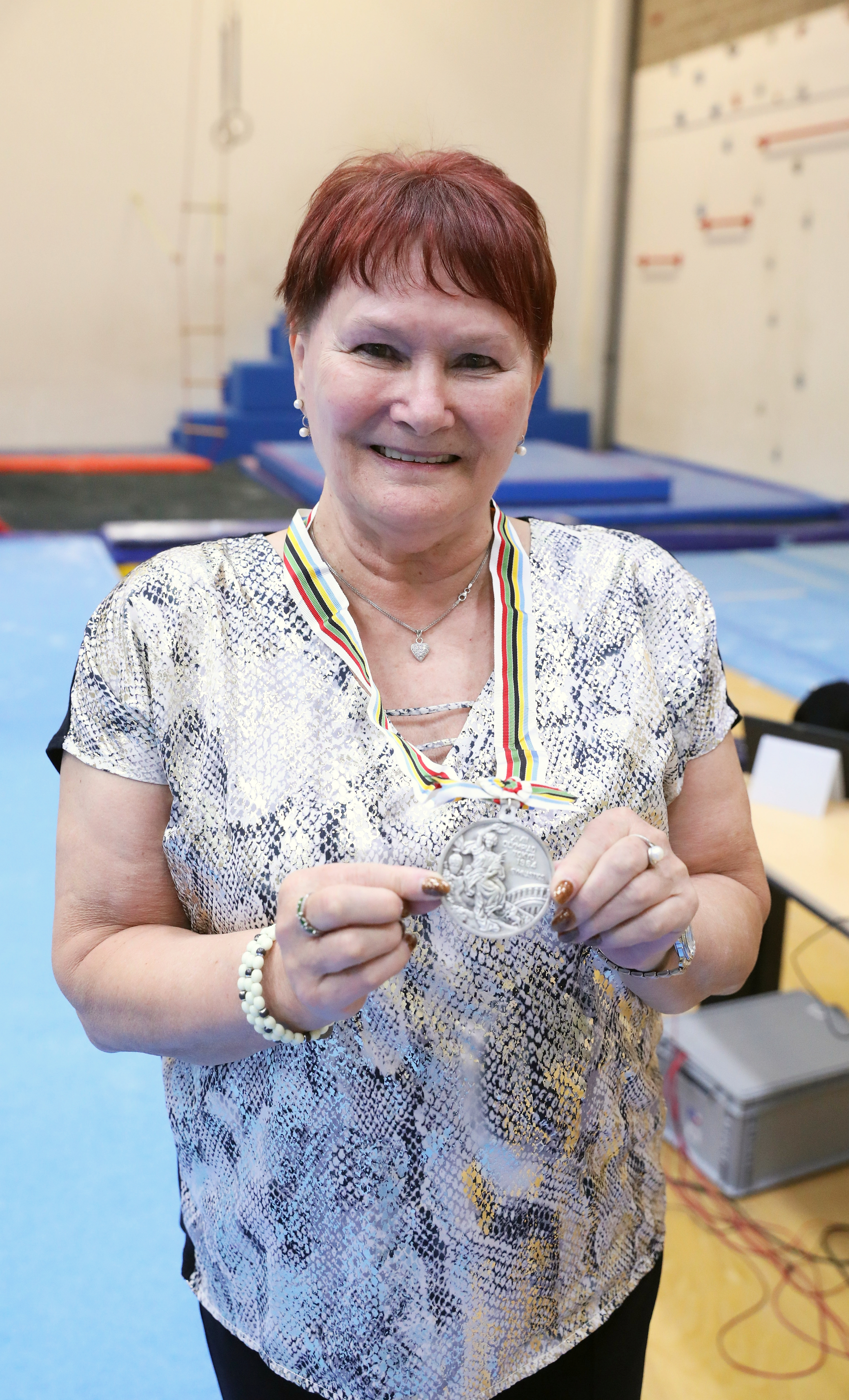 Victory ceremonies of the boys' all-around competition at the Olympic Hopes Cup 2019 in Liberec on 28 November 2019.